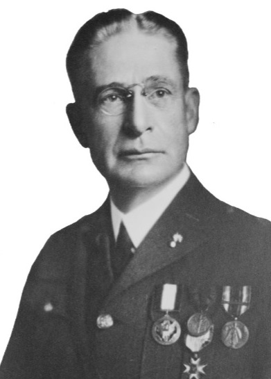 Brig. Gen. C. L'H. Ruggles (US Army officer)